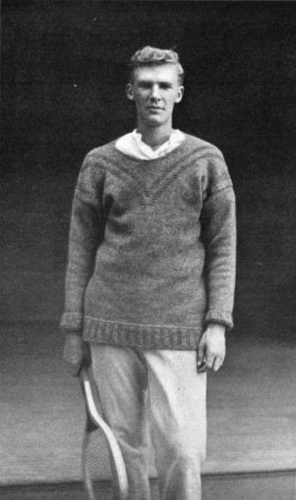 Malcolm D. Whitman (1877-1932), US tennis player